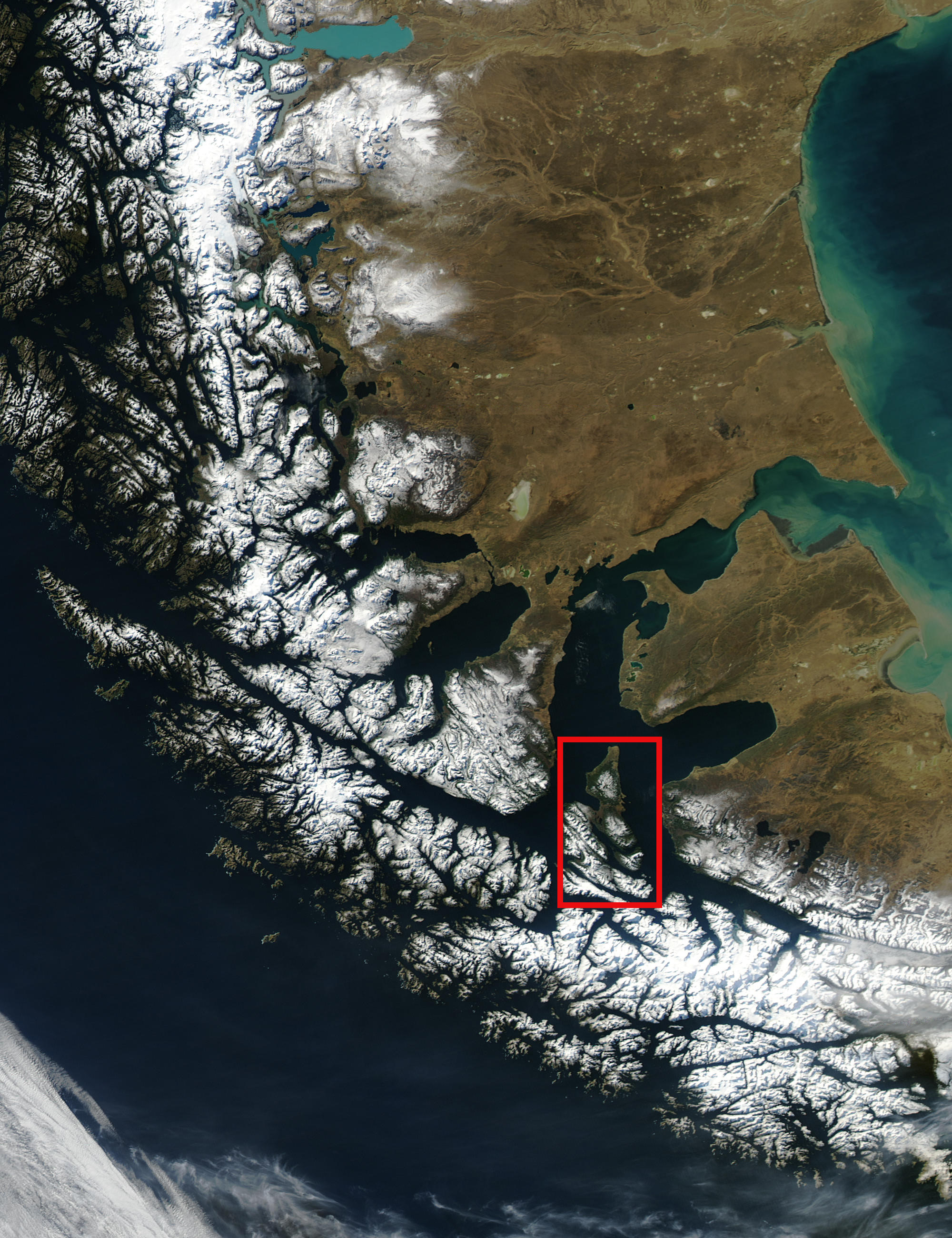 Dawson Island in strait of Magellan. Image modified from NASA Astronaut images of Earth.